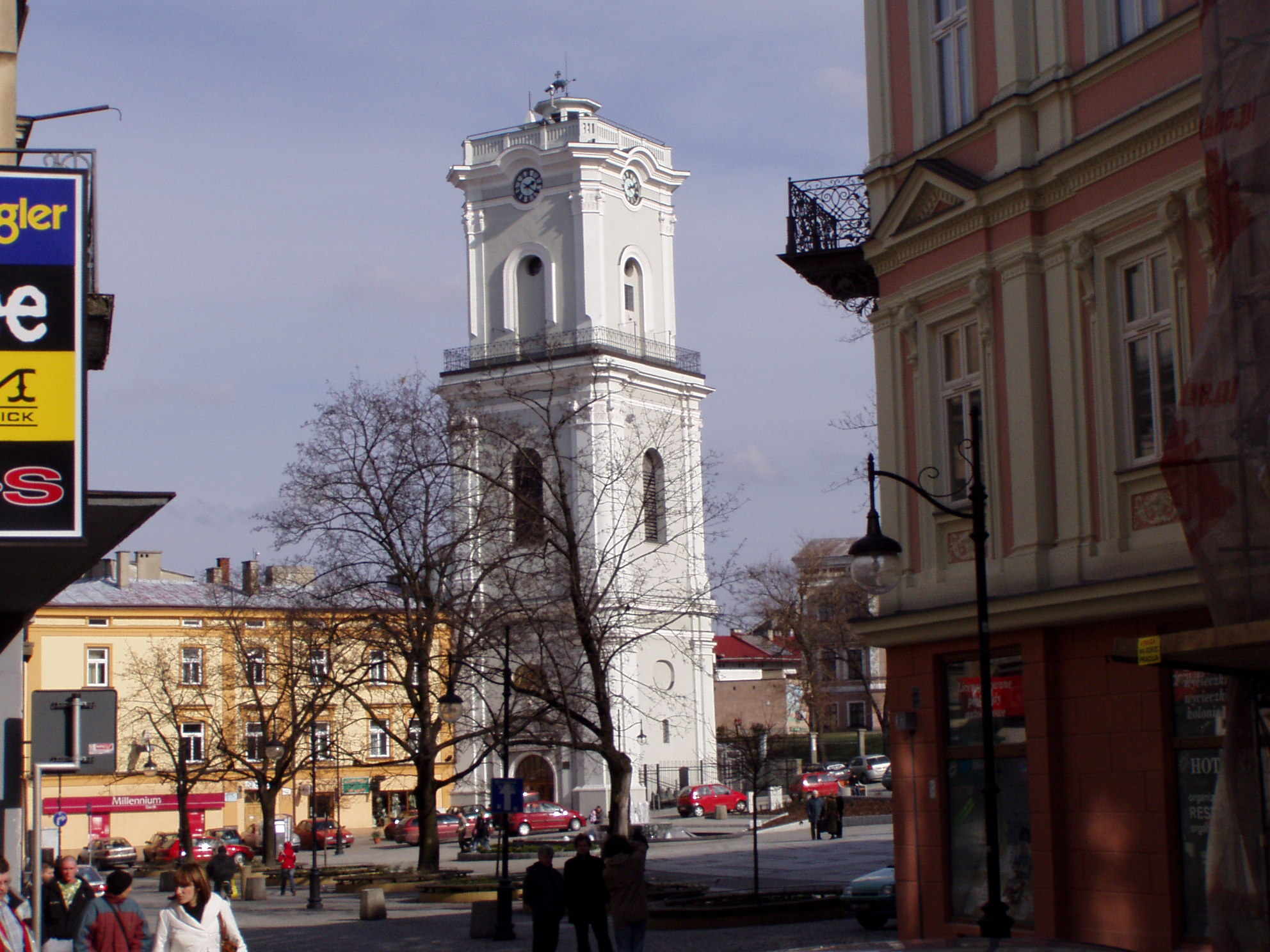 Clock tower in Przemyśl, Poland